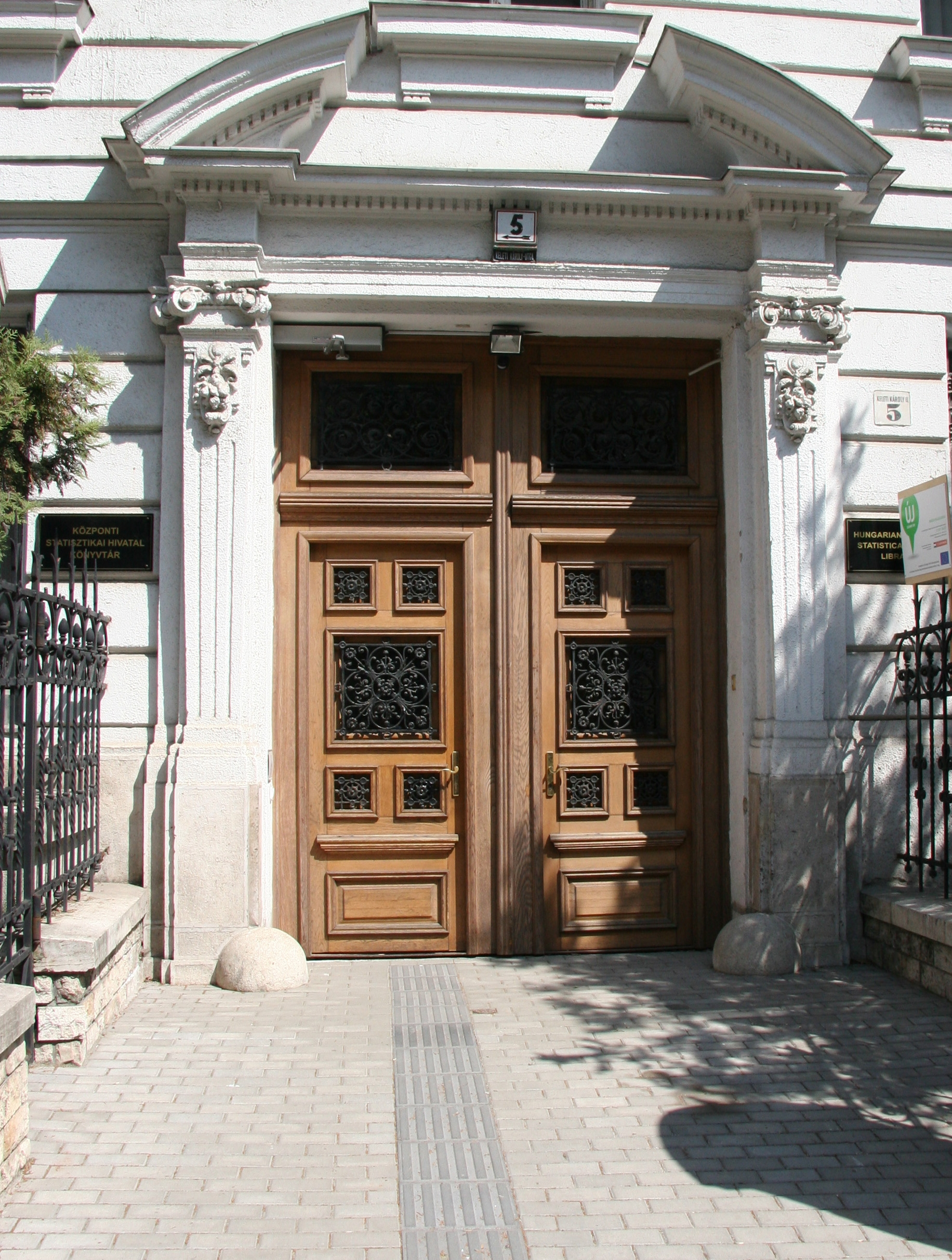 Entrance door of the HCSO Library